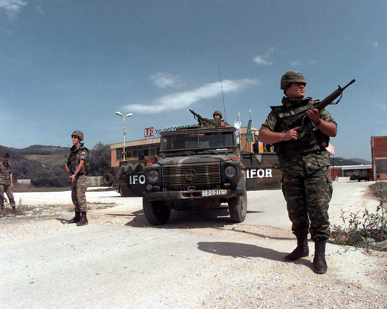 Three Hellenic Army Special Forces Commando Squadron soldiers, SGT Daniel Koukoulis, SGT Papadam Stuliavos, and SGT Barovtes Avtonios, stand guard, two with rifles and the third standing behind a machine gun mounted in the back of an IFOR marked Mercedes-Benz (4×4) 750 kg Light Vehicle, at an entry control point in front of a facility housing Organization for Security and Cooperation in Europe (OSCE) personnel. At this site OSCE personnel load polling kits onto Hellenic Army IFOR vehicles for shipment throughout Bosnia-Herzegovina for the upcoming elections during Operation Joint Endeavor. Operation Joint Endeavor is a peacekeeping effort by a multinational Implementation Force (IFOR), comprised of NATO and non-NATO military forces, deployed to Bosnia in support of the Dayton Peace Accords. ID: DD-SD-00-00336 Operation / Series: JOINT ENDEAVOR Camera Operator: SSGT ANDY DUNAWAY . Date Shot: 28 Aug 1996